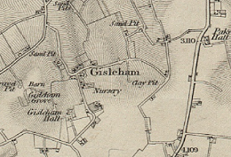 Historical Map of Gisleham